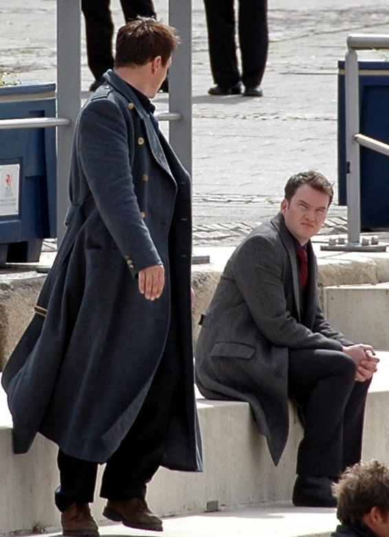 Filming "Torchwood" in Cardiff